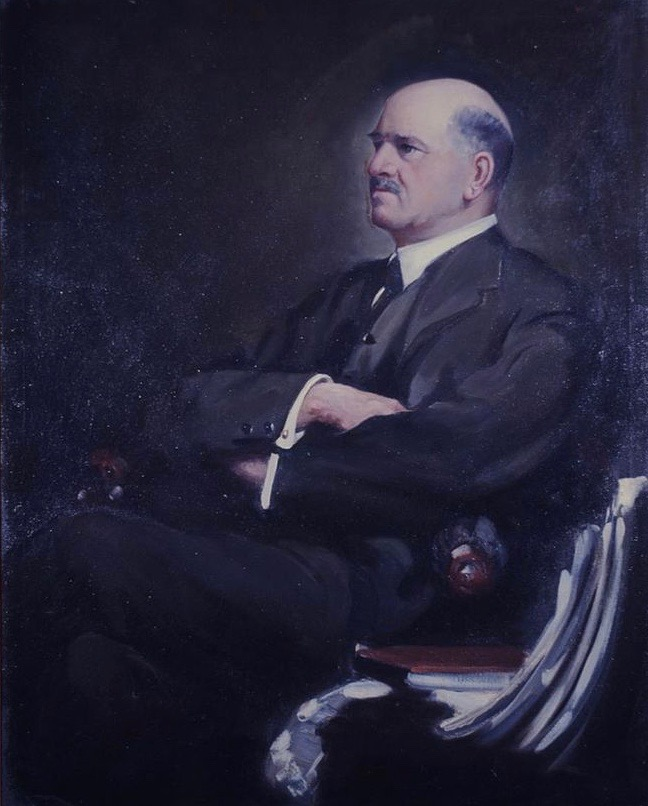 Portrait of Governor Whitfield